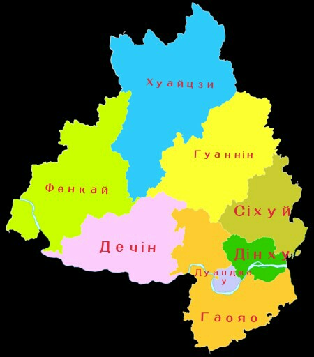 Zhaoqing county map